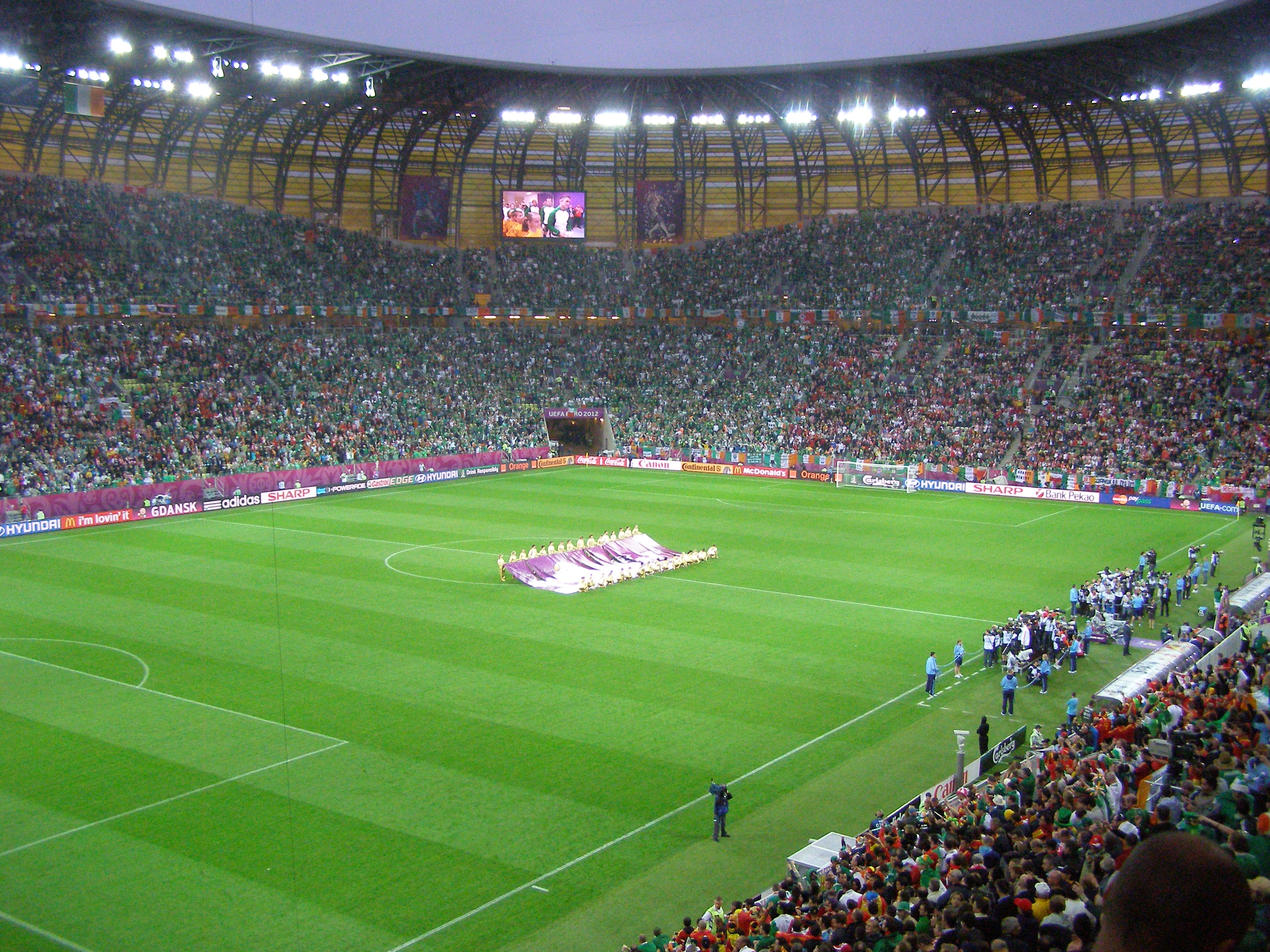 Gdańsk - PGE Arena - Euro 2012 - Group C match Spain - Rep. of Ireland